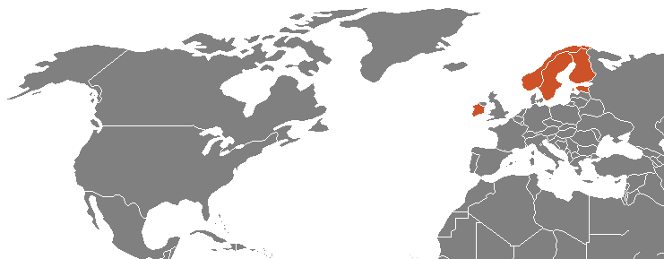 Map of Nordic Battlegroup countries.